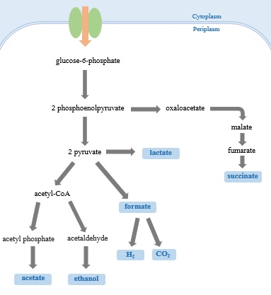 Diagram depicting the stages of the Mixed Acid Fermentation pathway in E. coli